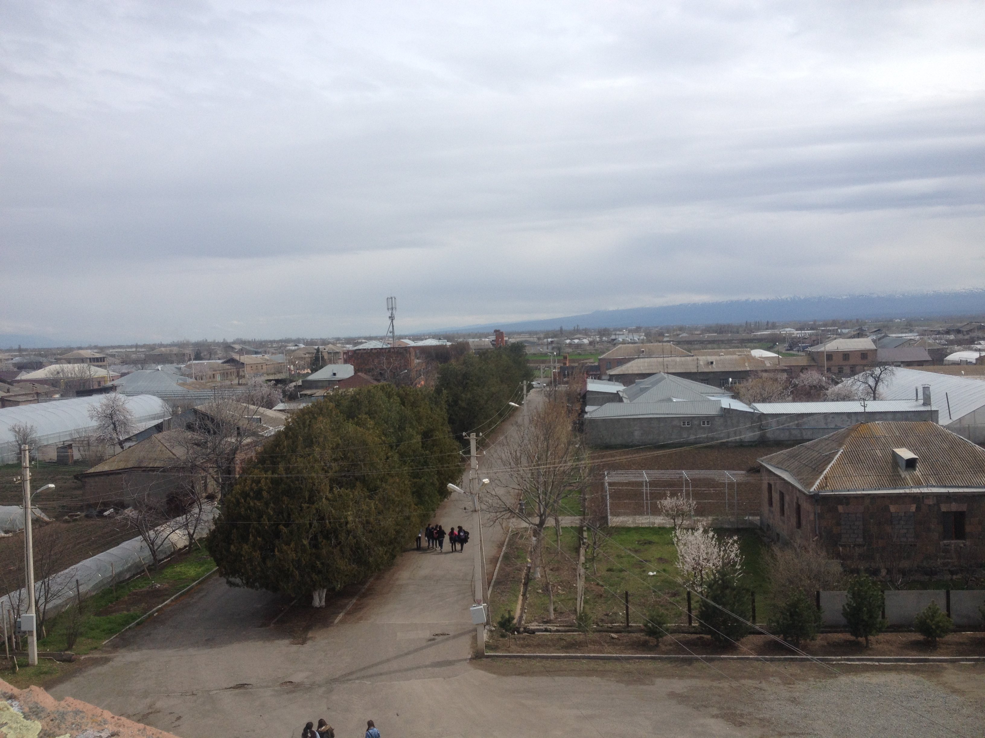 Դուք Տեսնում էք արշալույս գյուղը Մշակույթի տան Ամենա բարձր դիրքից